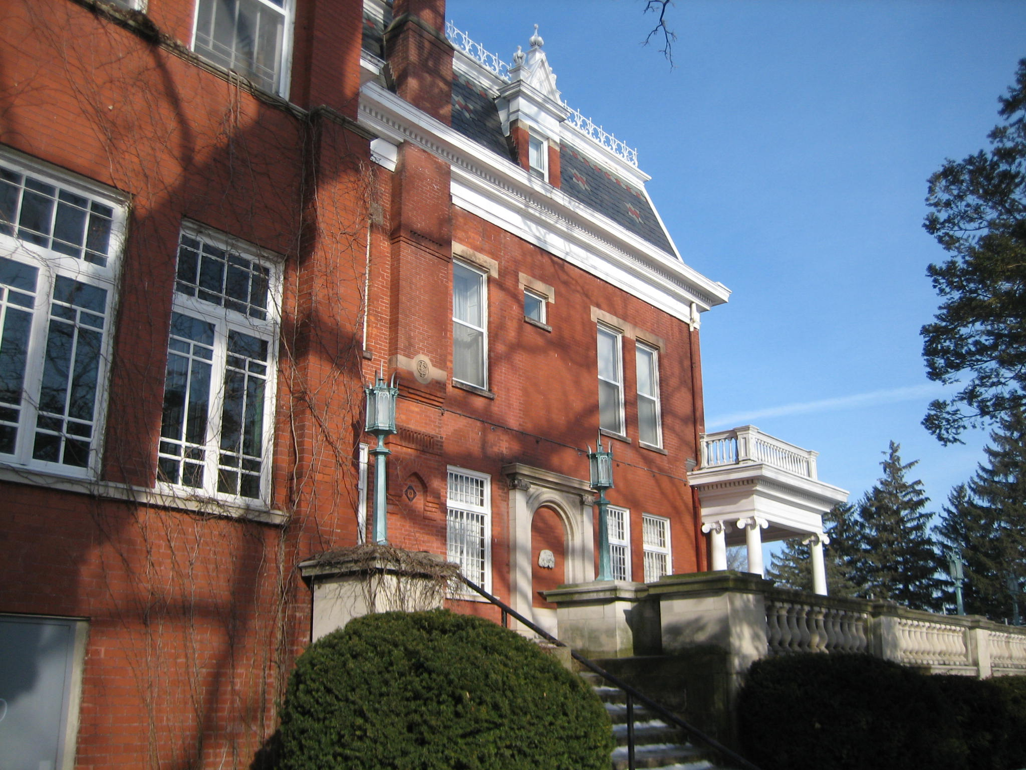 Ellwood House. DeKalb, Illinois. National Register of Historic Places.